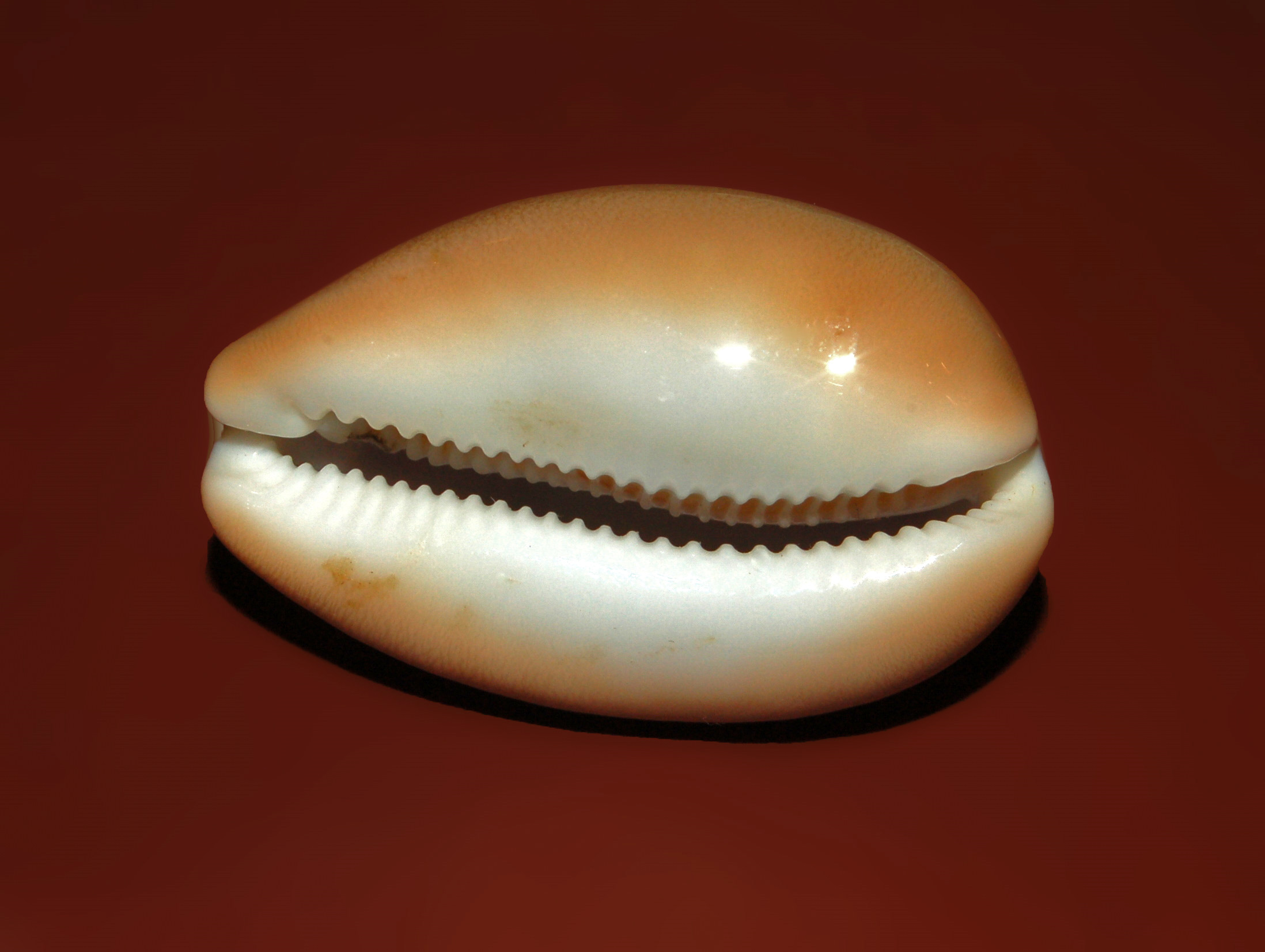 Lyncina schilderorum - Hawaii